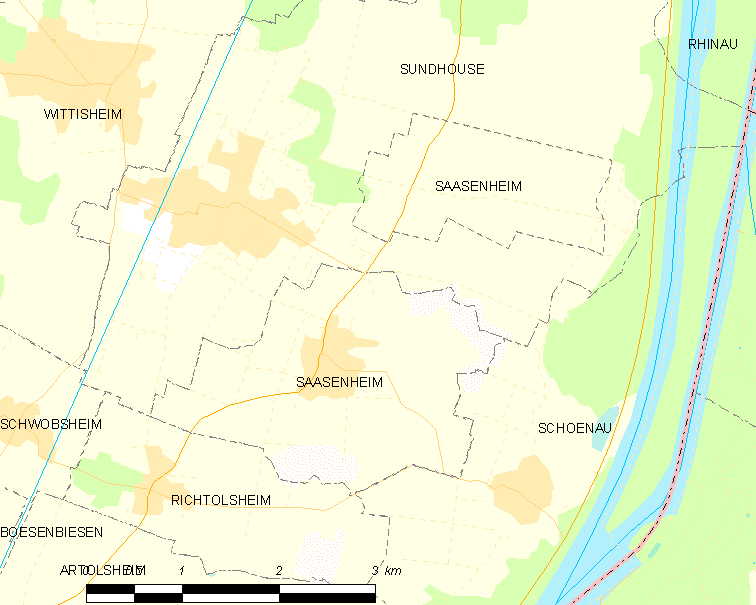 Map of French municipality